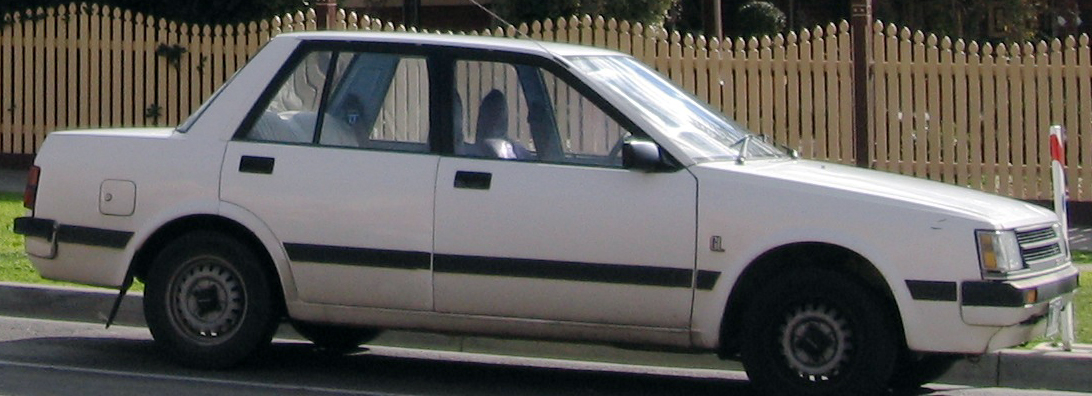 1983–1984 Nissan Pulsar (N12) GL sedan. Photographed in Eaglehawk, Victoria, Australia.